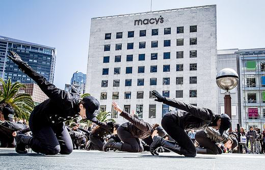 Janet Jackson Rythm Nation Flash Mob Dance